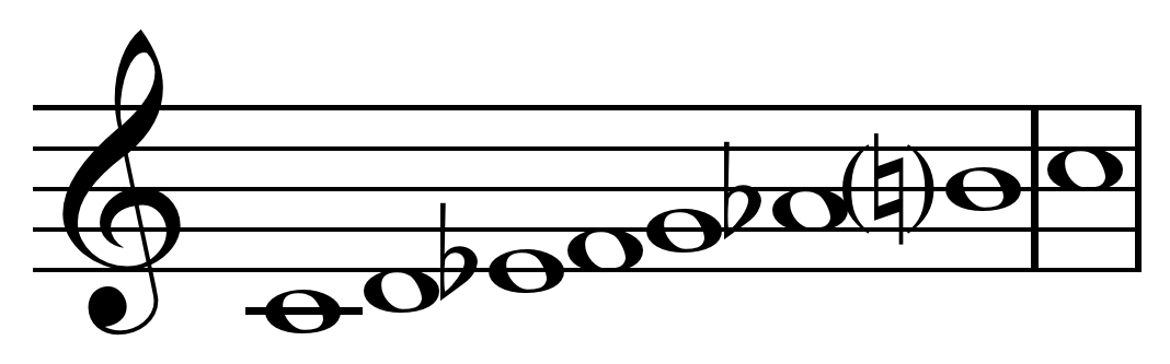 Harmonic minor scale on C.